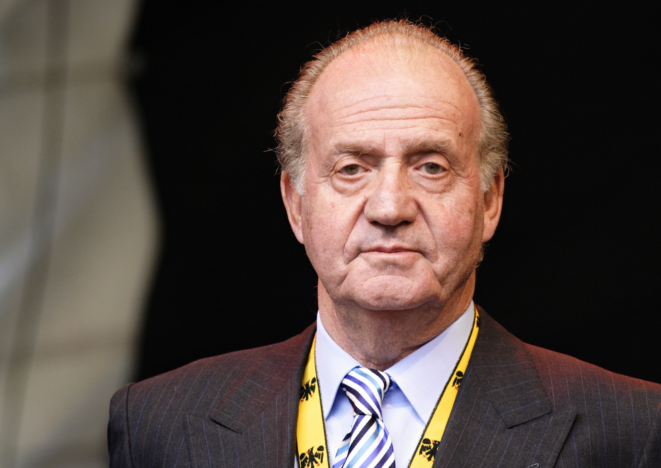 This picture shows Juan Carlos I who was King of Spain. The photograph was made on the occasion of the International Charlemagne Prize of the city of Aachen in the year 2007. The yellow ribbon with the black eagles belongs to the Charlemagne Prize medal, which was awarded to His Majesty in 1982.